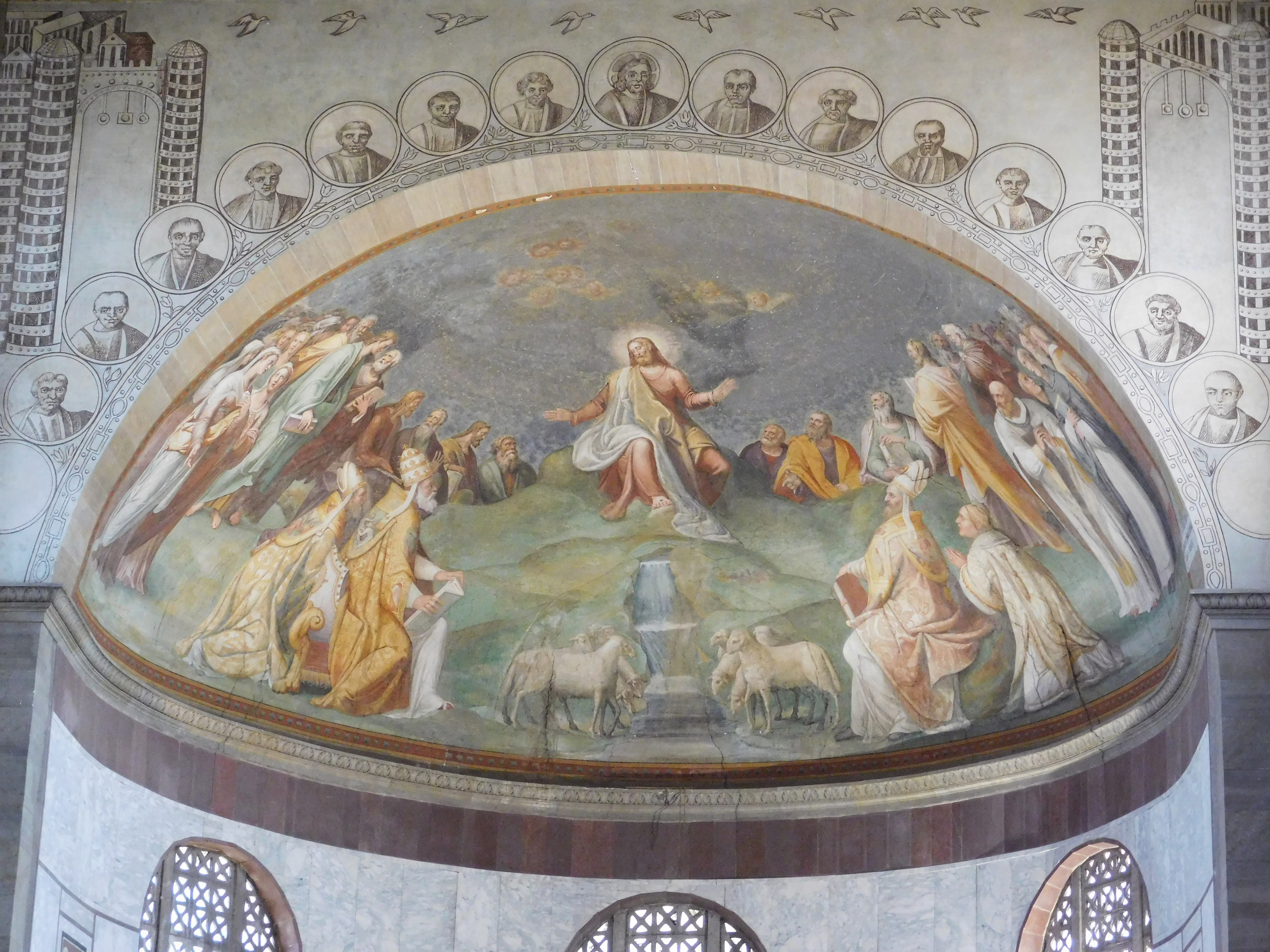 Rome, Basilica of Saint Sabina